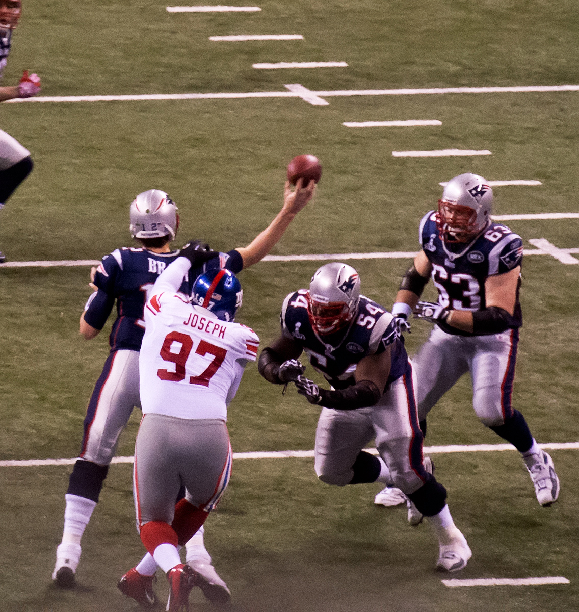 New York Giants DT Linval Joseph tackling New England Patriots QB Tom Brady during the Super Bowl XLVI